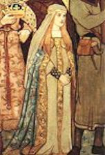 Imaginary portrait of Margaret, Maid of Norway who only lived to the age of 7 not to a grown women as this paiting show.